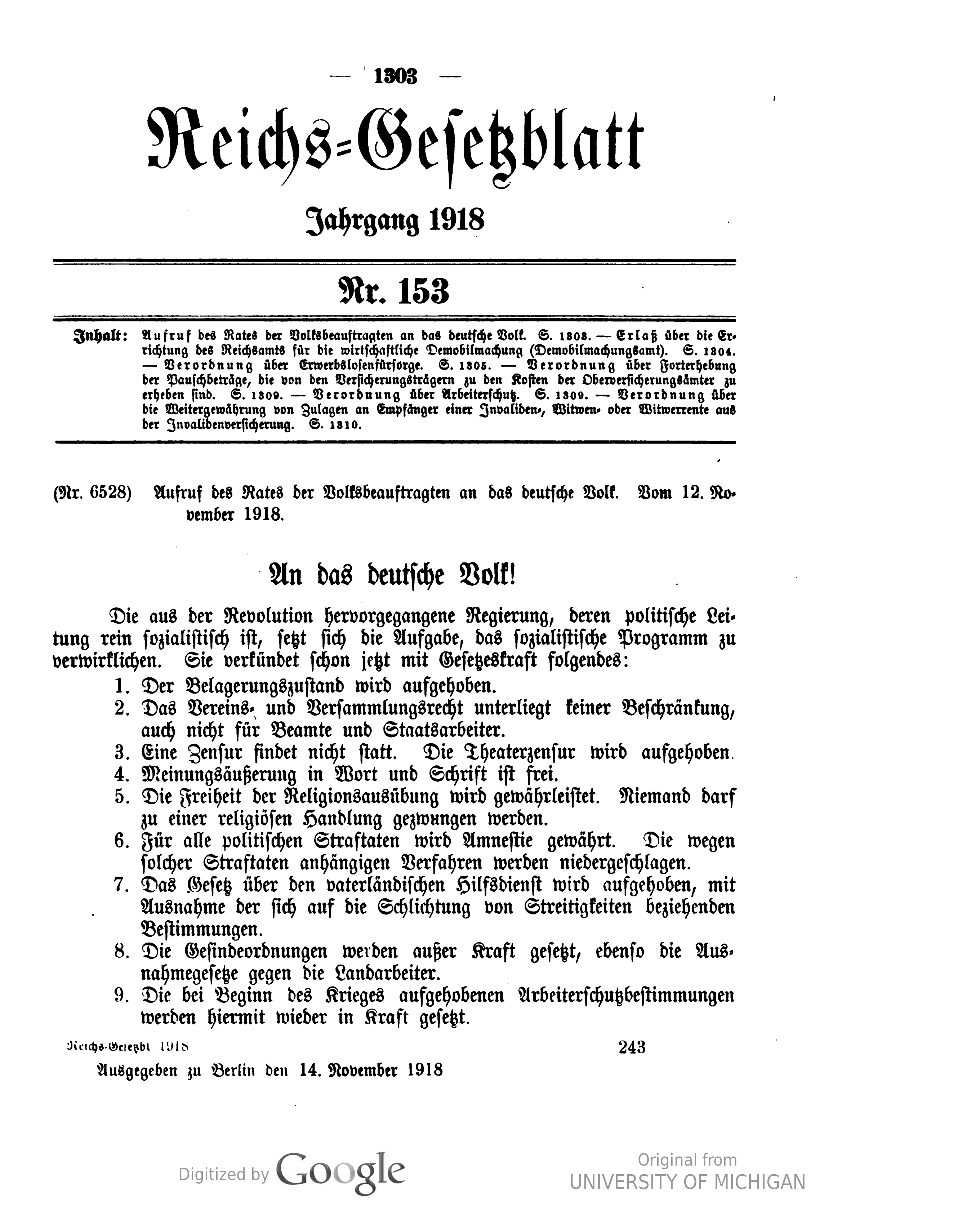 Scan from the Imperial Law Gazette of Germany, 1918